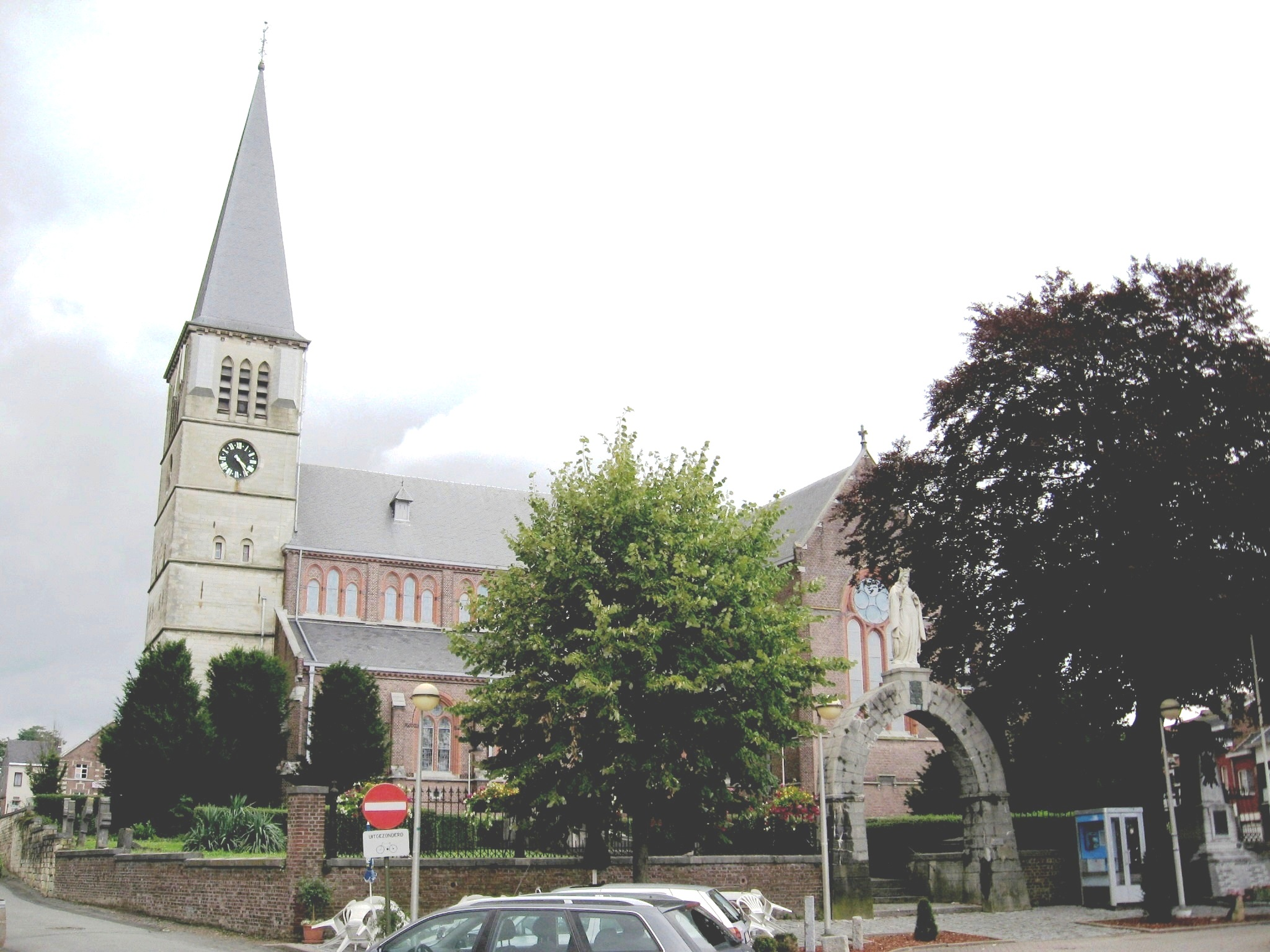 Church of Saint Ursula in Eigenbilzen, Bilzen, Limburg, Belgium